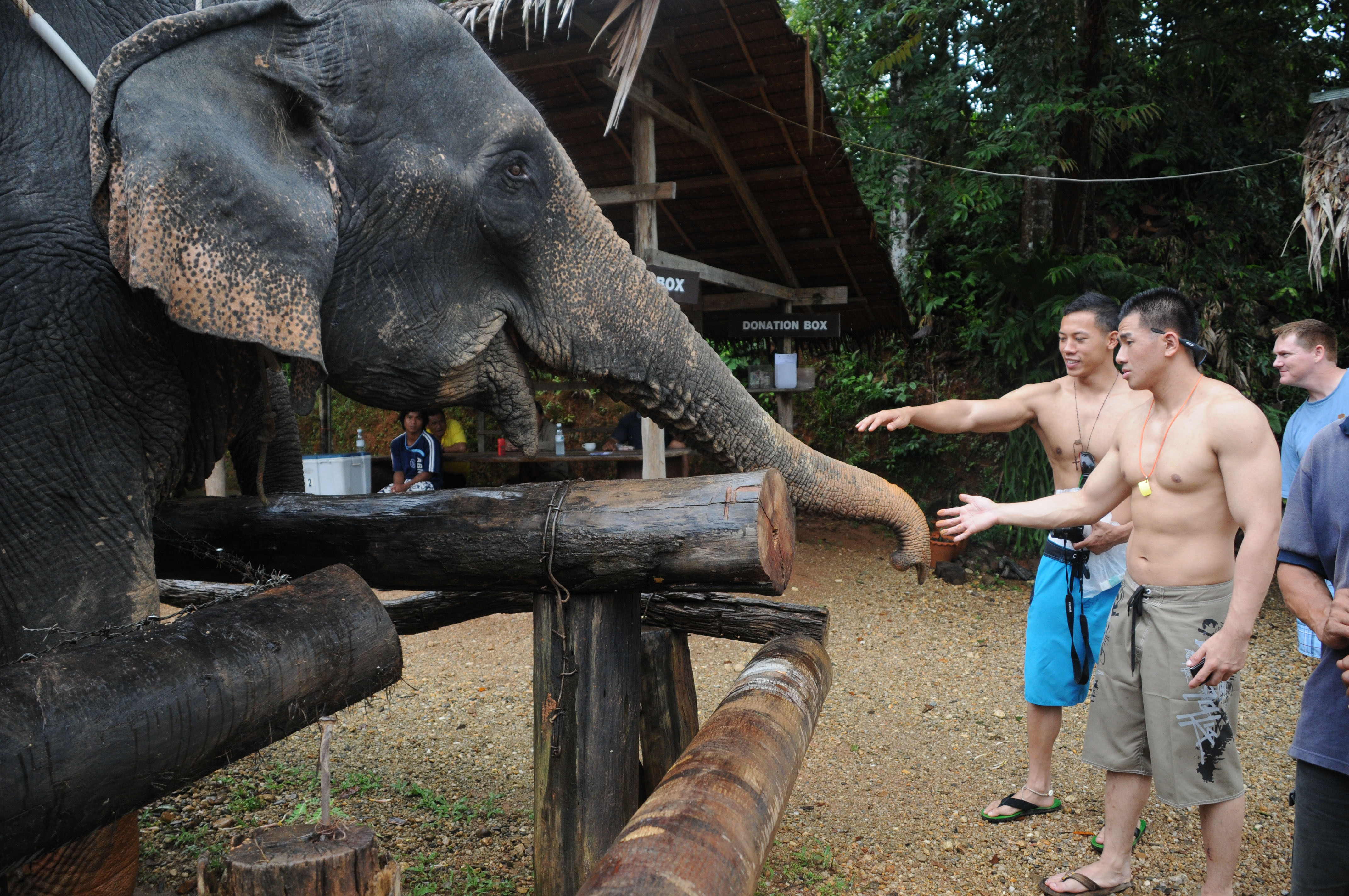 Sailors from the aircraft carrier USS Ronald Reagan pet elephants during a Morale Welfare and Recreation sponsored tour in Thailand. The tour was a day long adventure where Sailors went white water rafting, took elephant rides, ate local fresh fruit grown on site, took a hike to a water fall and ate an authentic Thai meal. The Ronald Reagan Carrier Strike Group is on a routine deployment in the 7th Fleet area of responsibility. Operating in the Western Pacific and Indian Ocean, the U.S. 7th Fleet is the largest of the forward-deployed U.S. fleets, covering 52 million square miles, with approximately 50 ships, 120 aircraft and 20,000 Sailors and Marines assigned at any given time.